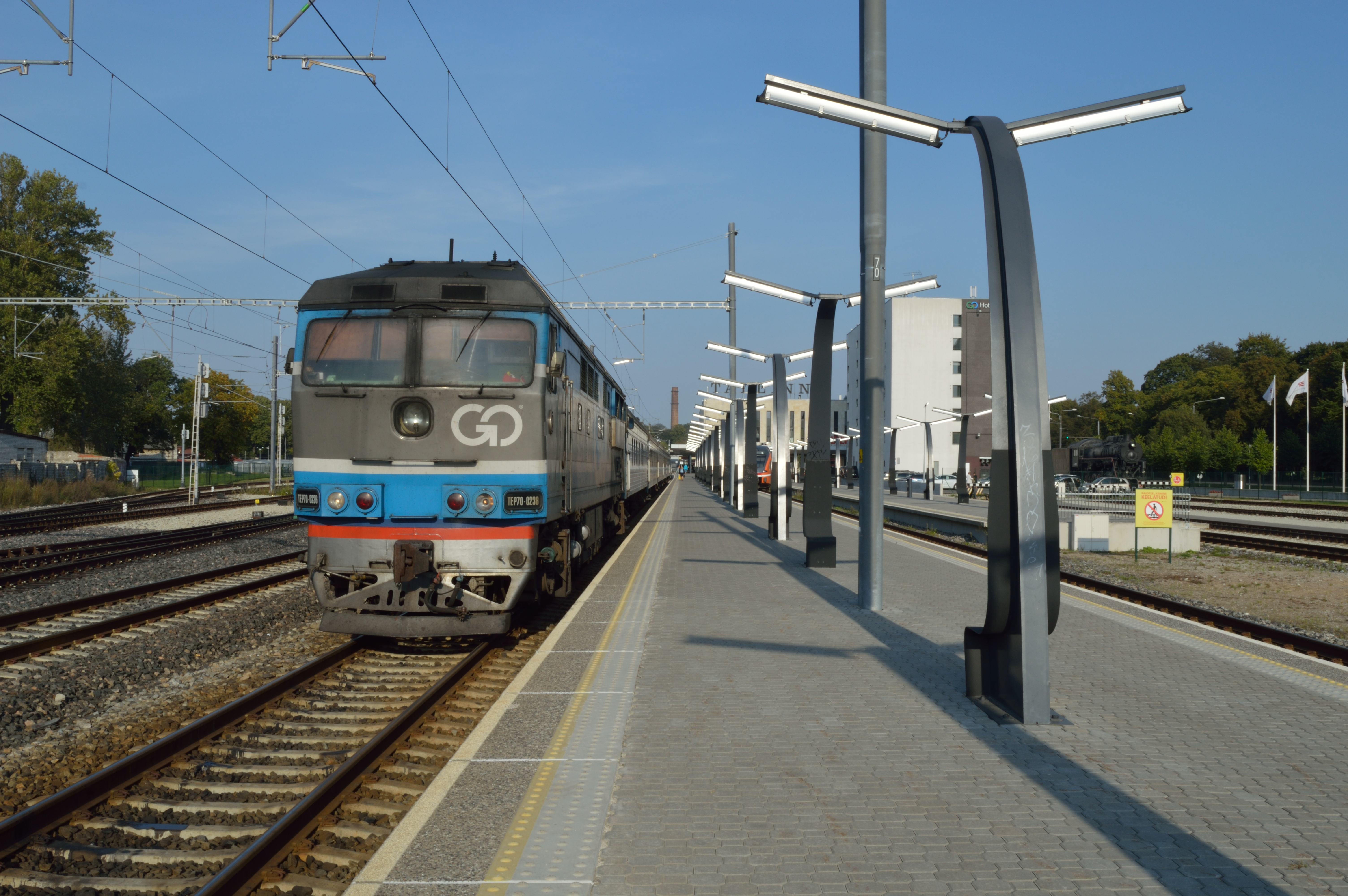 3 former Russian State Railways locos - class TEP70 were acquired by Estonian passenger operator AS GoRail. These are assigned to the sleeper from Tallinn through to Moscow which runs daily. Seen here at Tallinn on a sunny late afternoon , TEP70-0236 (mistakenly TEP70-0238) and its stock were berthed ready to depart on train 34X "Tallinna Ekspress", 18:00 Tallinn to Moskva Leningradski. AS GoRail also operate the daytime services between Tallinn and Sankt Peterburg in Russia worked by Soviet built 4-car DR1A DMUs.